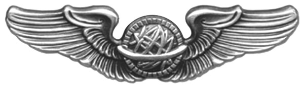 U.S. Army Air Corps/Air Force Navigator badge Courtesy U.S. Air Force (U.S. Air Force)